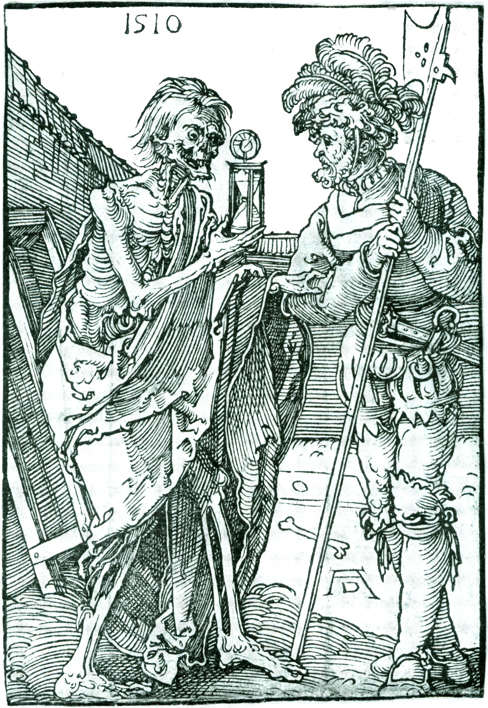 Death and the Landsknecht